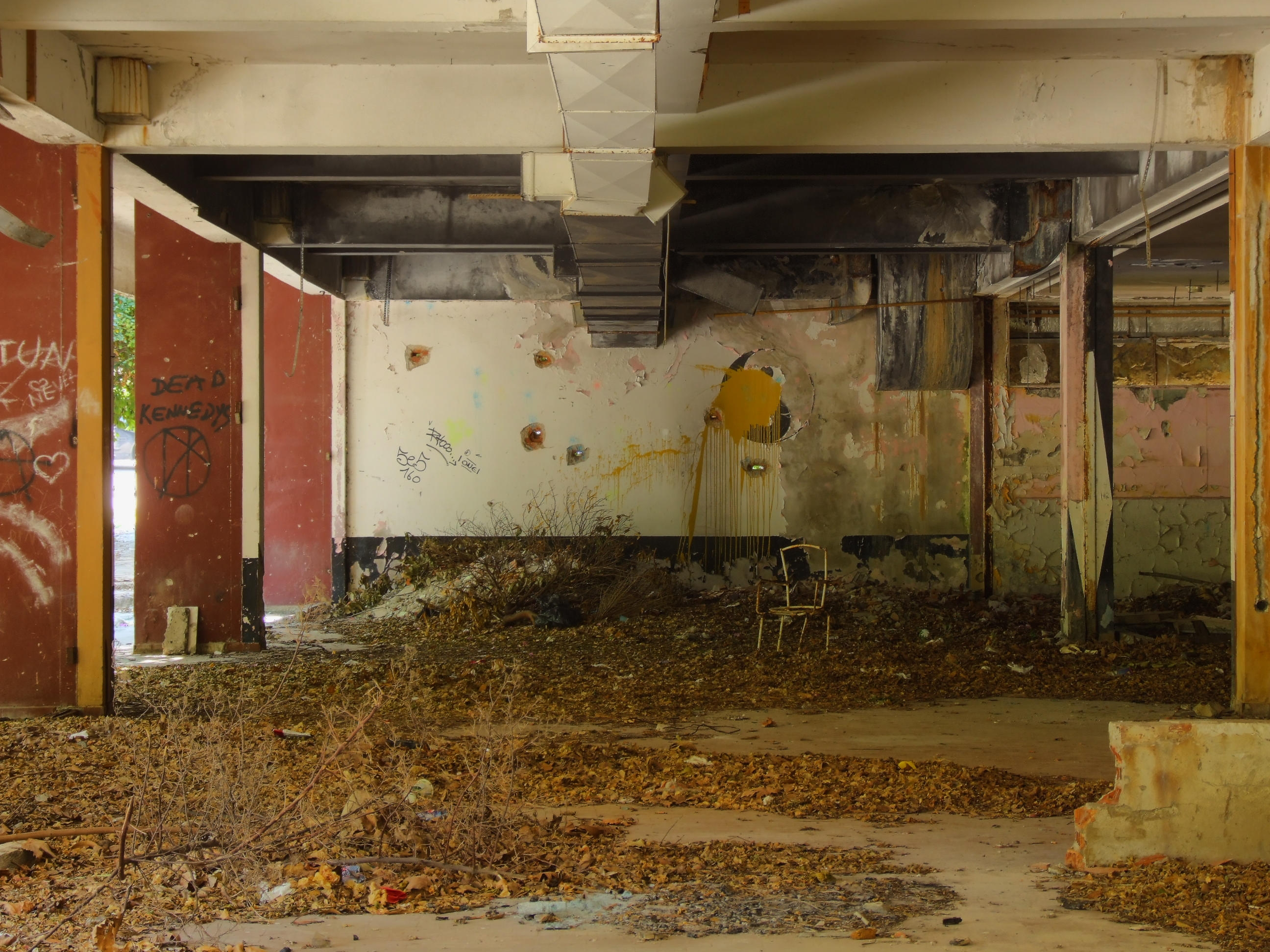 Srebreno, Croatia - hotel destroyed in 1991 year (HDR version)